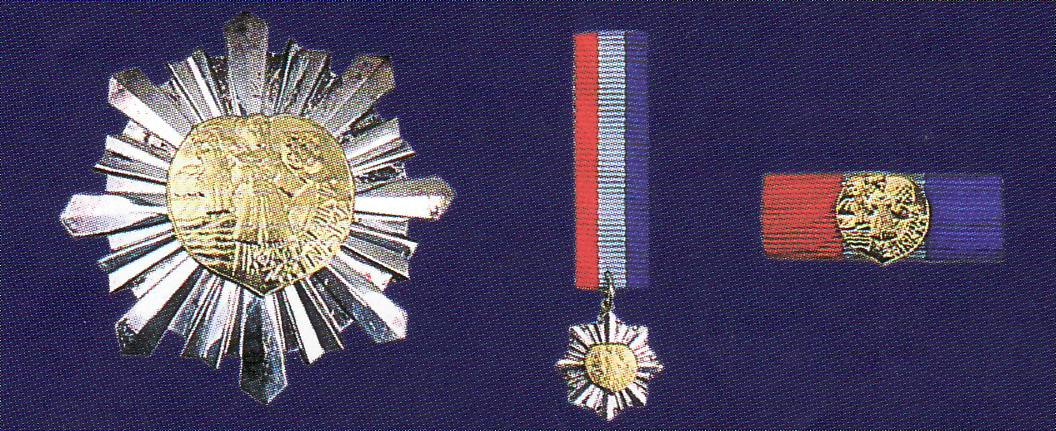 Badge and Ribbon of Order of Danica Hrvatska with the face of Katarina Zrinska